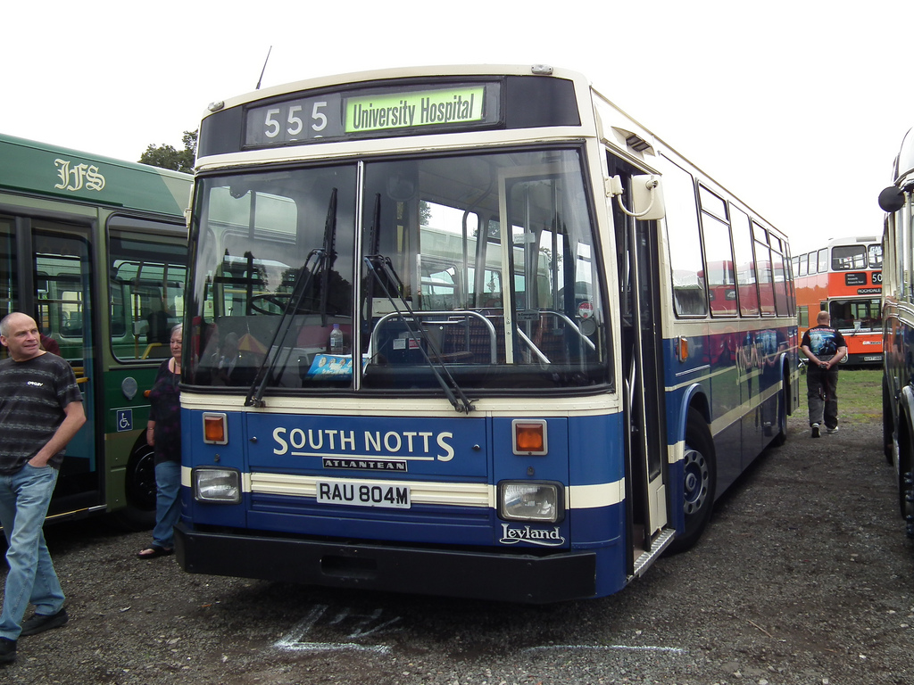 A unique preserved bus. Originally a double-decker, one of the East Lancs bodied Nottingham standards on Leyland Atlantean AN68 chassis (dual door layout, 47 seats upsairs, 30 downstairs), it was delivered new to Nottingham City Transport in 1974 as their 555 (reg. OTO 555M). On reaching the end of its life, during 1993/4 is was experimentally rebuilt as a single-decker with a 45 seat single-door East Lancs Sprint body, and with the chassis extended by around 4 feet. It re-entered service in Nottingham's South Notts livery, renumbered 55. It remained unique in the fleet however, with the new vehicle thought to have insufficient seating for a large bus, and being difficult to manouvere due to the extra length. Finally withdrawn in 1999, it was re-registered RAU 804M, donating its own registration plate to another Nottingham vehicle, Scania 355 (reg. F702 JCN). It was sold to Hulleys of Baslow, who renumbered it as their 21. After being sold again in 2002, it saw sporadic use and stoarge with other operators until being bought for preservation in 2007. It has since been restored and repainted into its former South Notts 55 identity as seen here, however due to the fact Scania 355 was scrapped while still registered as OTO 555M, the preserved 55 cannot be re-united with its original registration. [1]